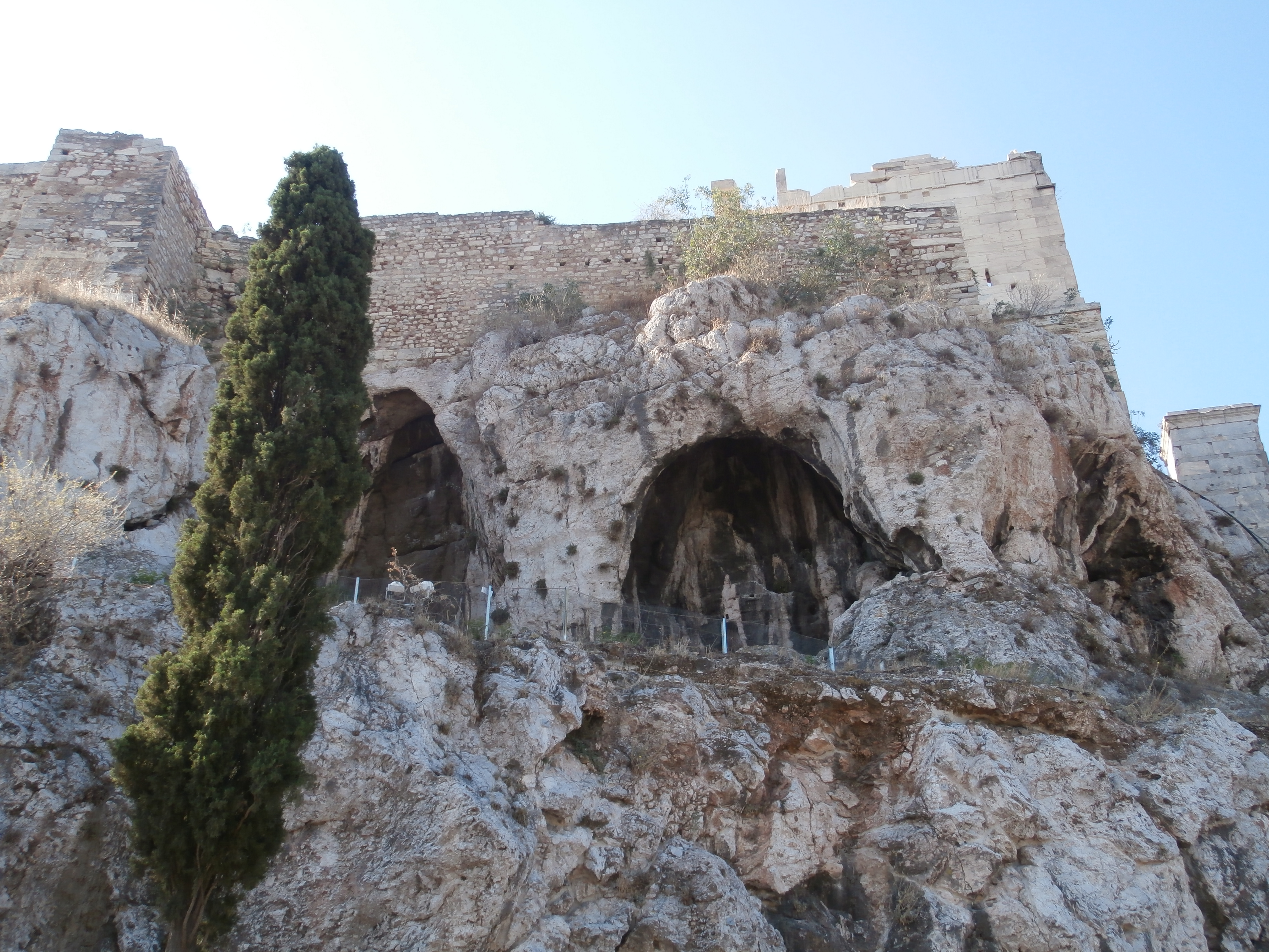 The caves of Zeus (left) and Apollon Ipakrion (right)